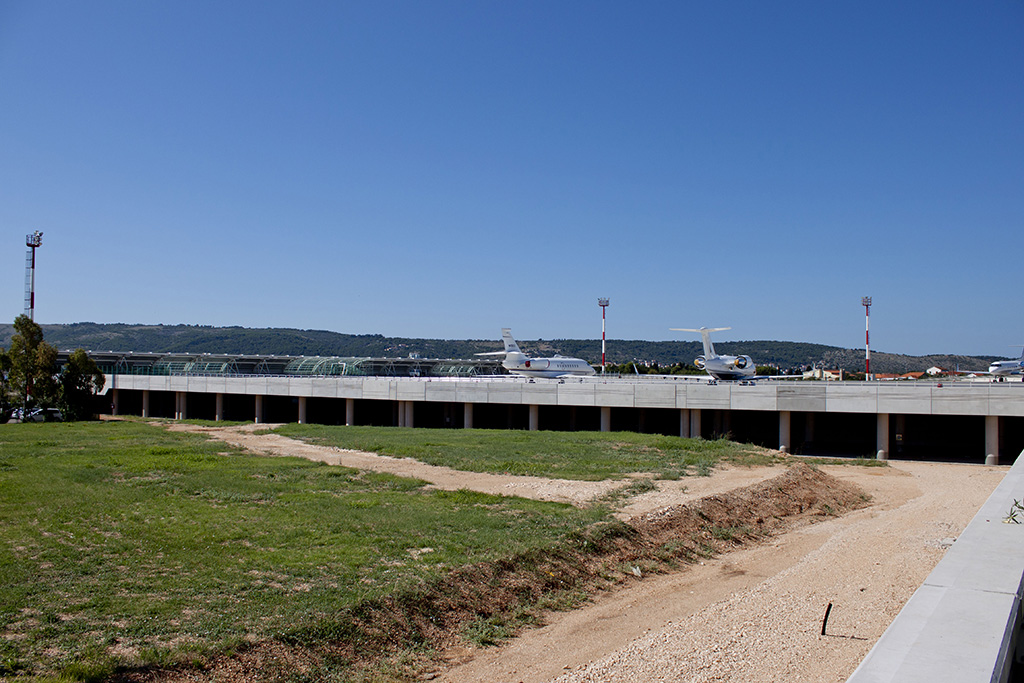 New apron at Split Airport